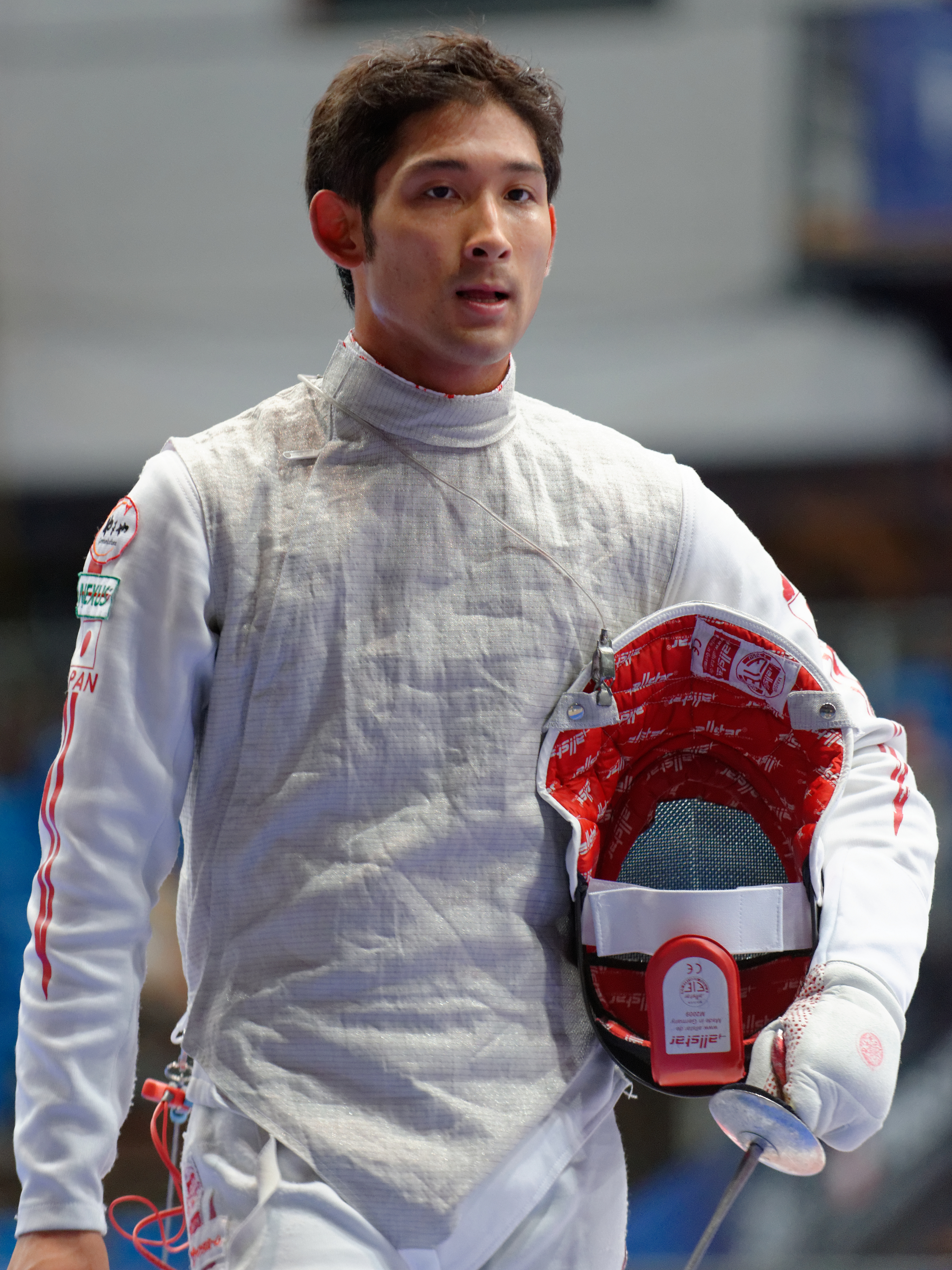 Japan's Ryo Miyake in the men's foil event of the 2013 World Fencing Championships 2013 at Syma Hall in Budapest on 9 August 2013.